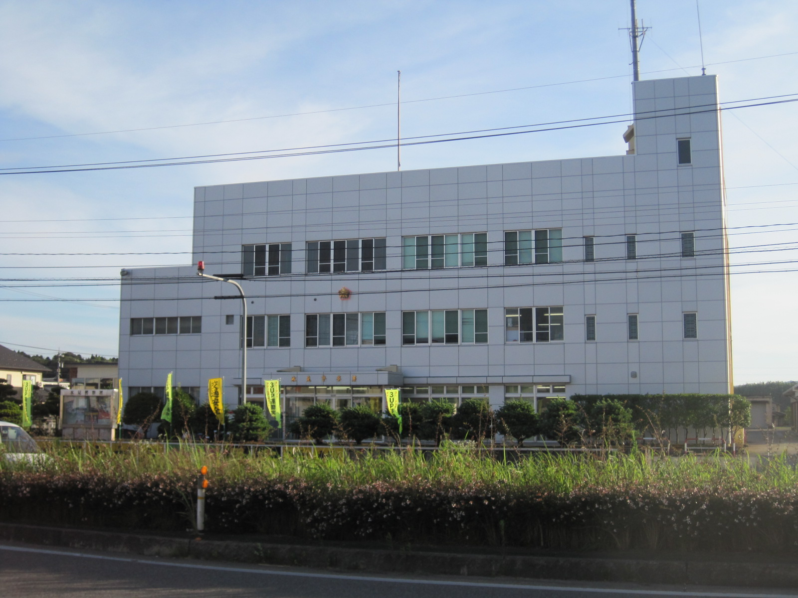 Himi Police Station(Himi city, Toyama prefecture)